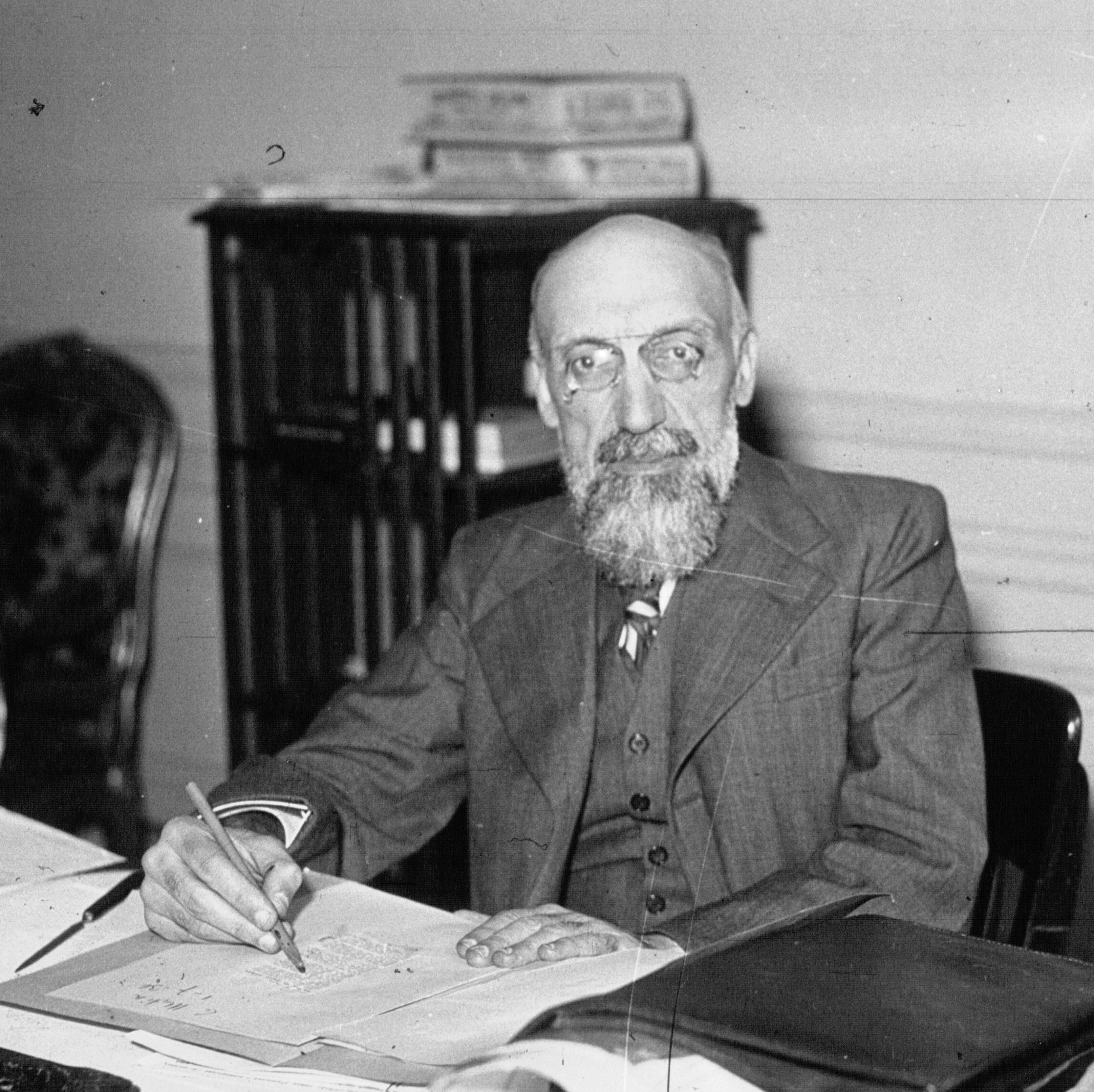 French politician Pierre Dézarnaulds (1879-1975).